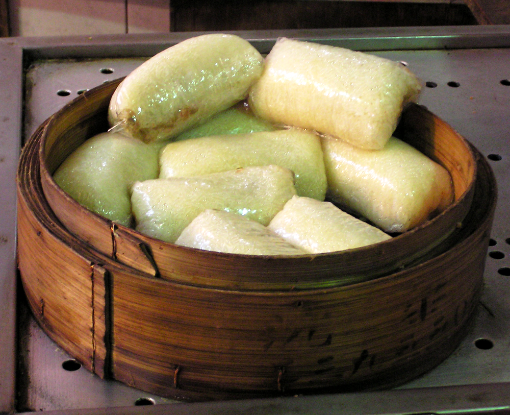 Many pieces of Ci fan tuan in a traditional Chinese steaming basket (Kowloon City, Hong Kong)